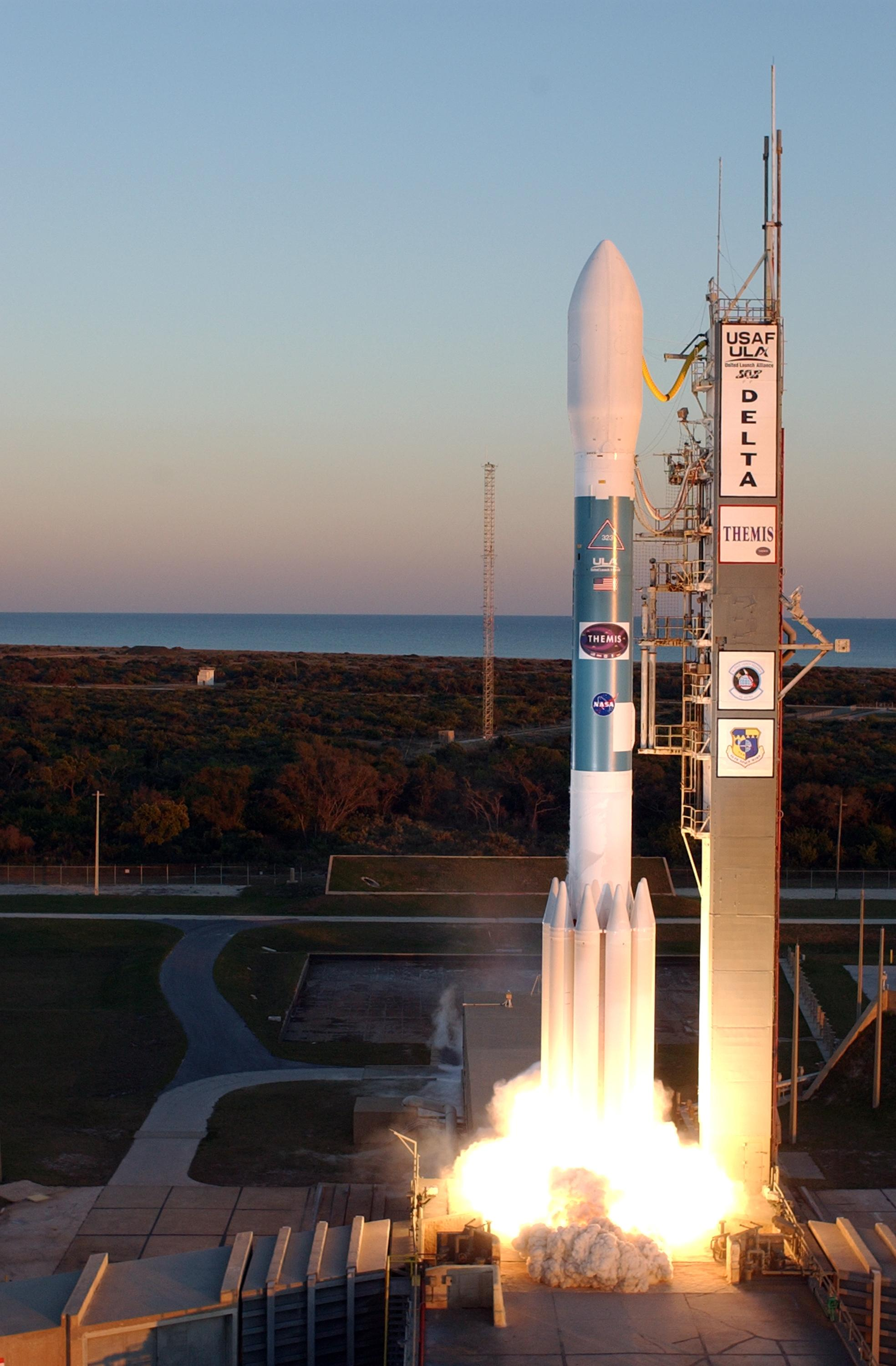 KENNEDY SPACE CENTER, FLA. -- At Cape Canaveral Air Force Station, the Delta II rocket with NASA's THEMIS spacecraft aboard begins its ascent from Pad 17-B, in sight of the Atlantic Ocean, at 6:01 p.m. EST. THEMIS, an acronym for Time History of Events and Macroscale Interactions during Substorms, consists of five identical probes that will track violent, colorful eruptions near the North Pole. This will be the largest number of scientific satellites NASA has ever launched into orbit aboard a single rocket. The THEMIS mission aims to unravel the mystery behind auroral substorms, an avalanche of magnetic energy powered by the solar wind that intensifies the northern and southern lights. The mission will investigate what causes auroras in the Earth?s atmosphere to dramatically change from slowly shimmering waves of light to wildly shifting streaks of bright color.